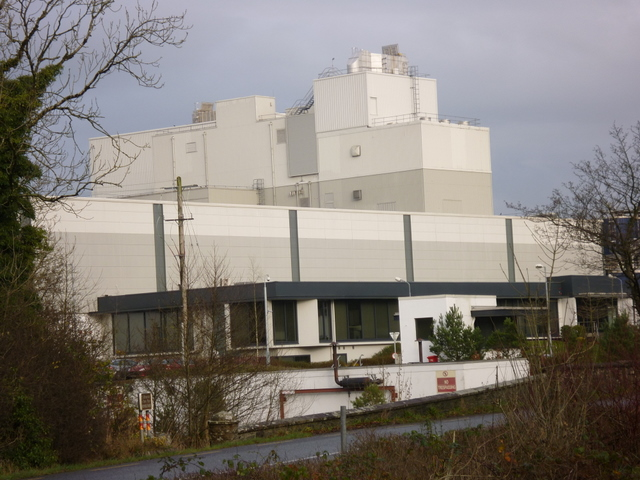 A big cow on the bank of the Dromore river This expanding international milk factory which has been deposited beside a beautiful stretch of the Dromore river has become so huge that it appears here just like a modern battleship moored to the bank. The length of this Leviathan is further extended by the twenty giant blue milk bottles that it seems to be towing 1624114. But it’s the immense height of the factory which makes it such a distinctive but alien feature in our rural landscape 1486484. Factory facts: Abbott, founded in 1888, was a US company and is now a global concern employing 70,000 people worldwide. When the Cootehill factory opened in 1975 it employed 68 people. Currently over 250 work there, with nearly half the baby food they produce going to China and South-East Asia.